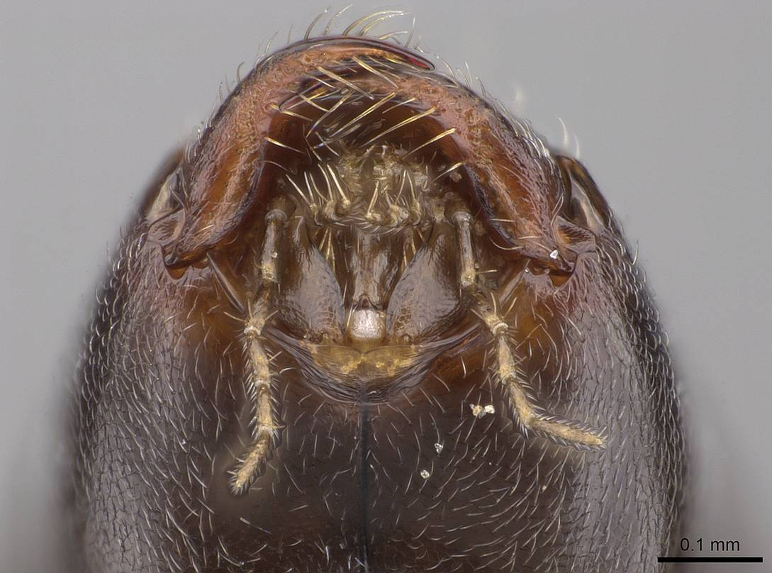 Detailed view of the ants mouthparts (O. glaber)